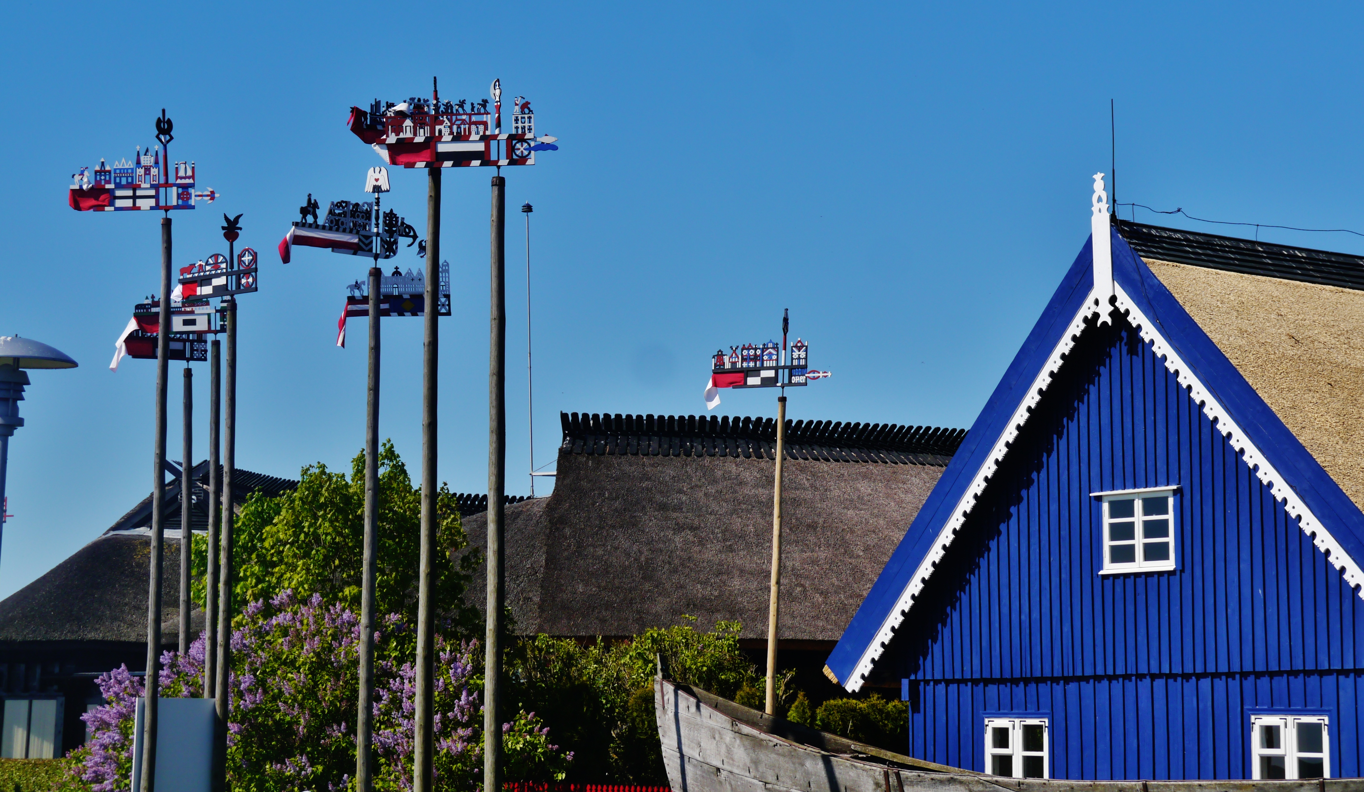 Streamers of Curonian fishermen at Nida, Curonian Spit, Lithuania